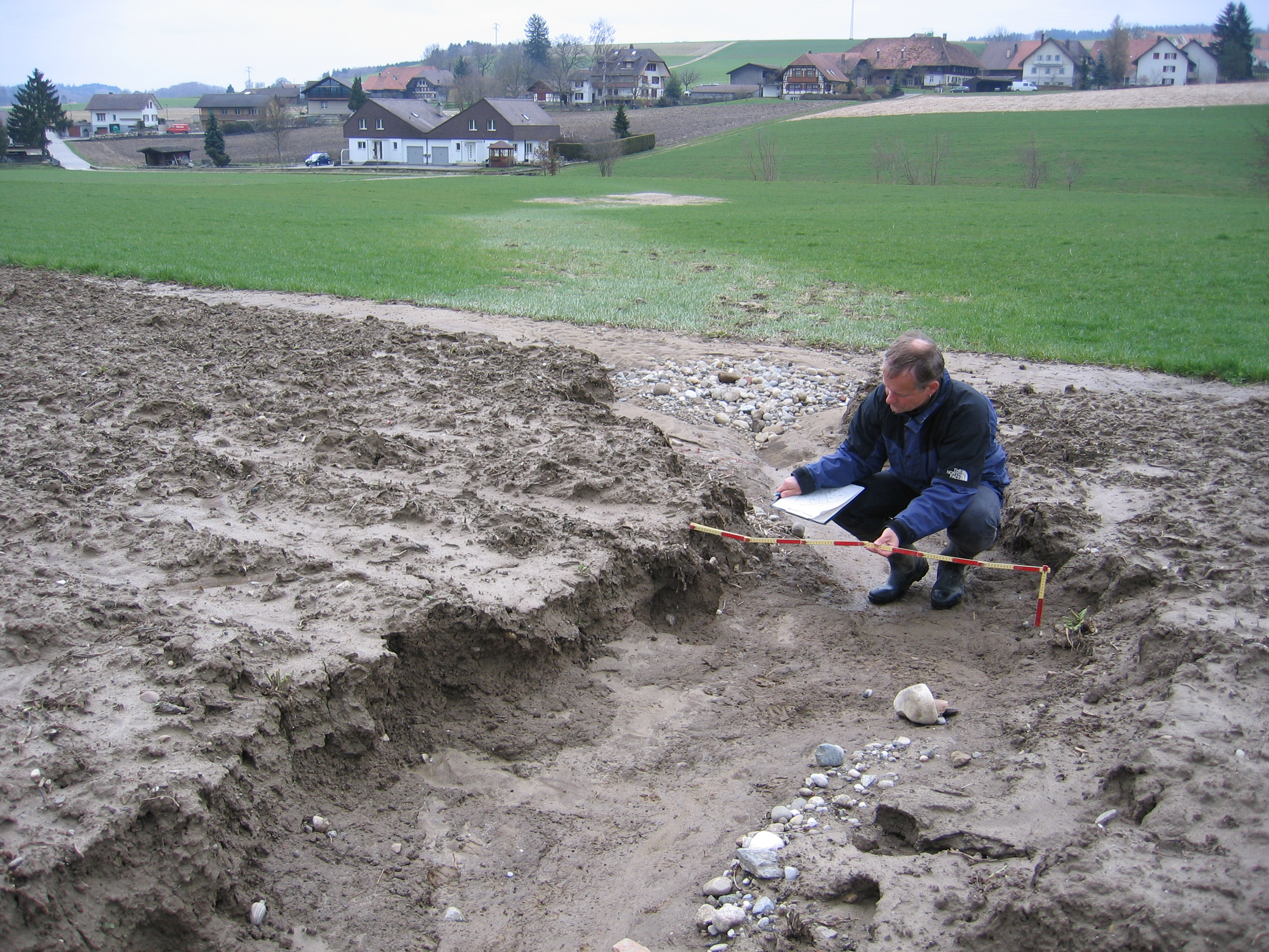 Erosion channels, canton of Bern, Switzerland